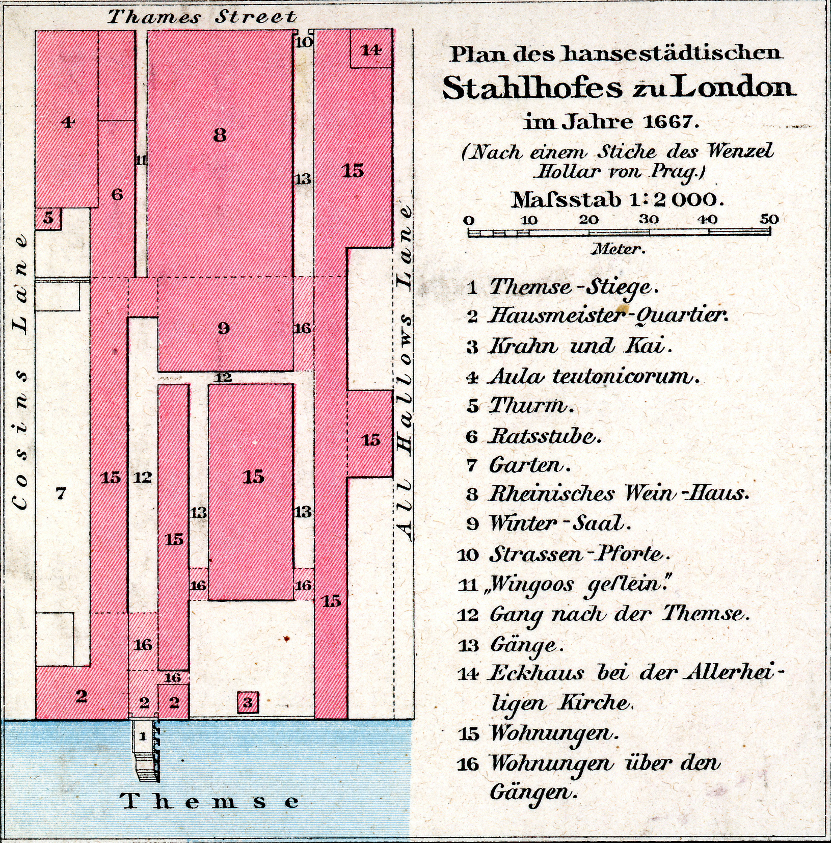 Plan of the Hanseatic League's Steelyard, in London, in the year 1667.